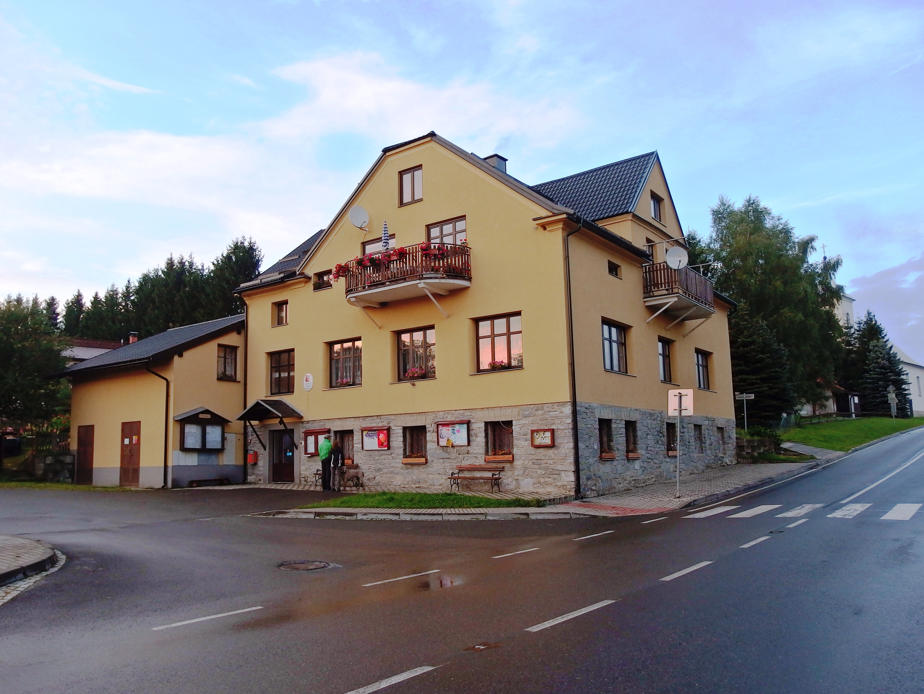 Ostružná, okres Jeseník, Česká republika.